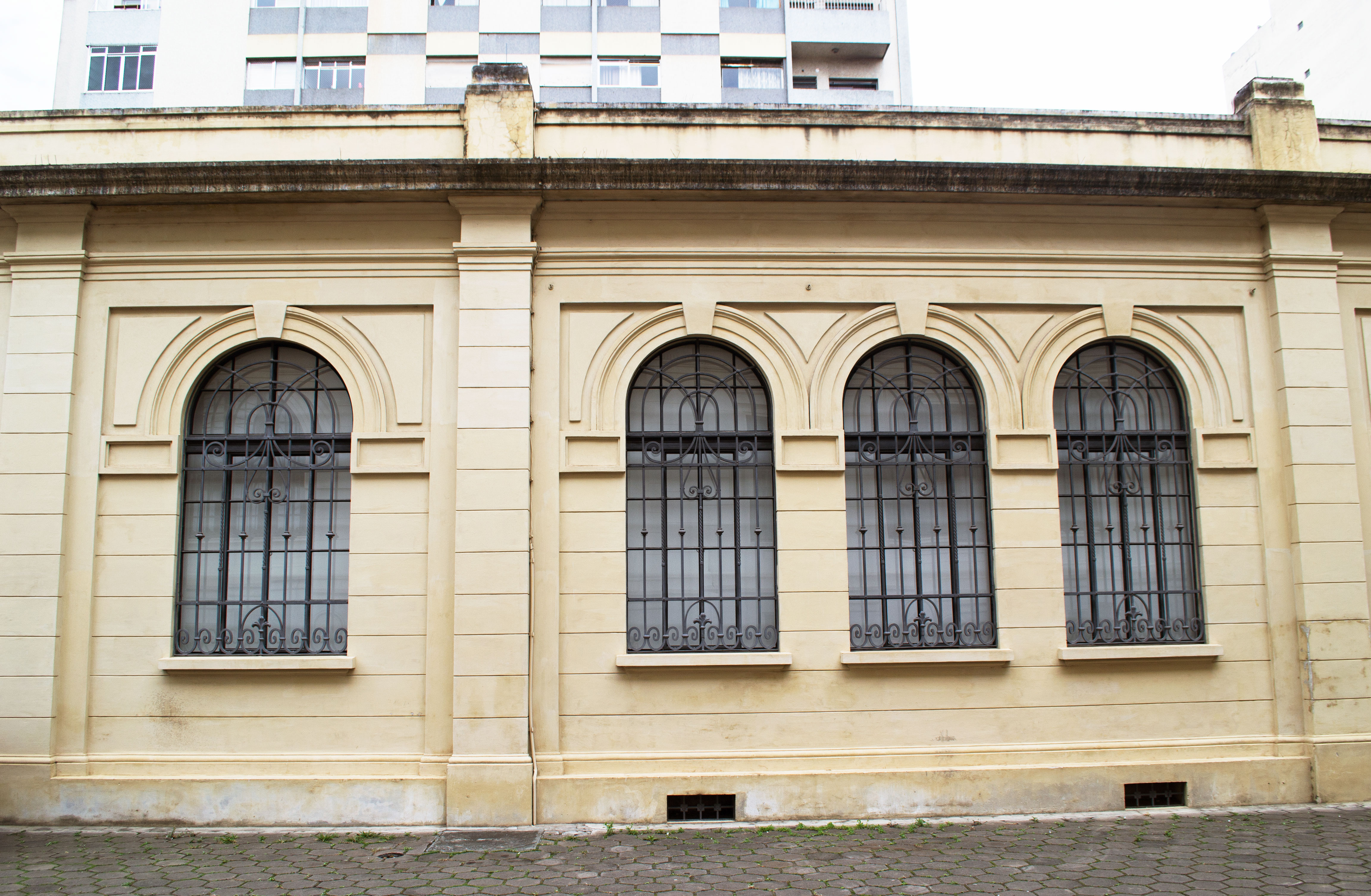 Janelas do prédio anexo ao Edifício Ramos de Azevedo, antiga Escola Politécnica, atual Arquivo Histórico de São Paulo, São Paulo (SP), Brasil